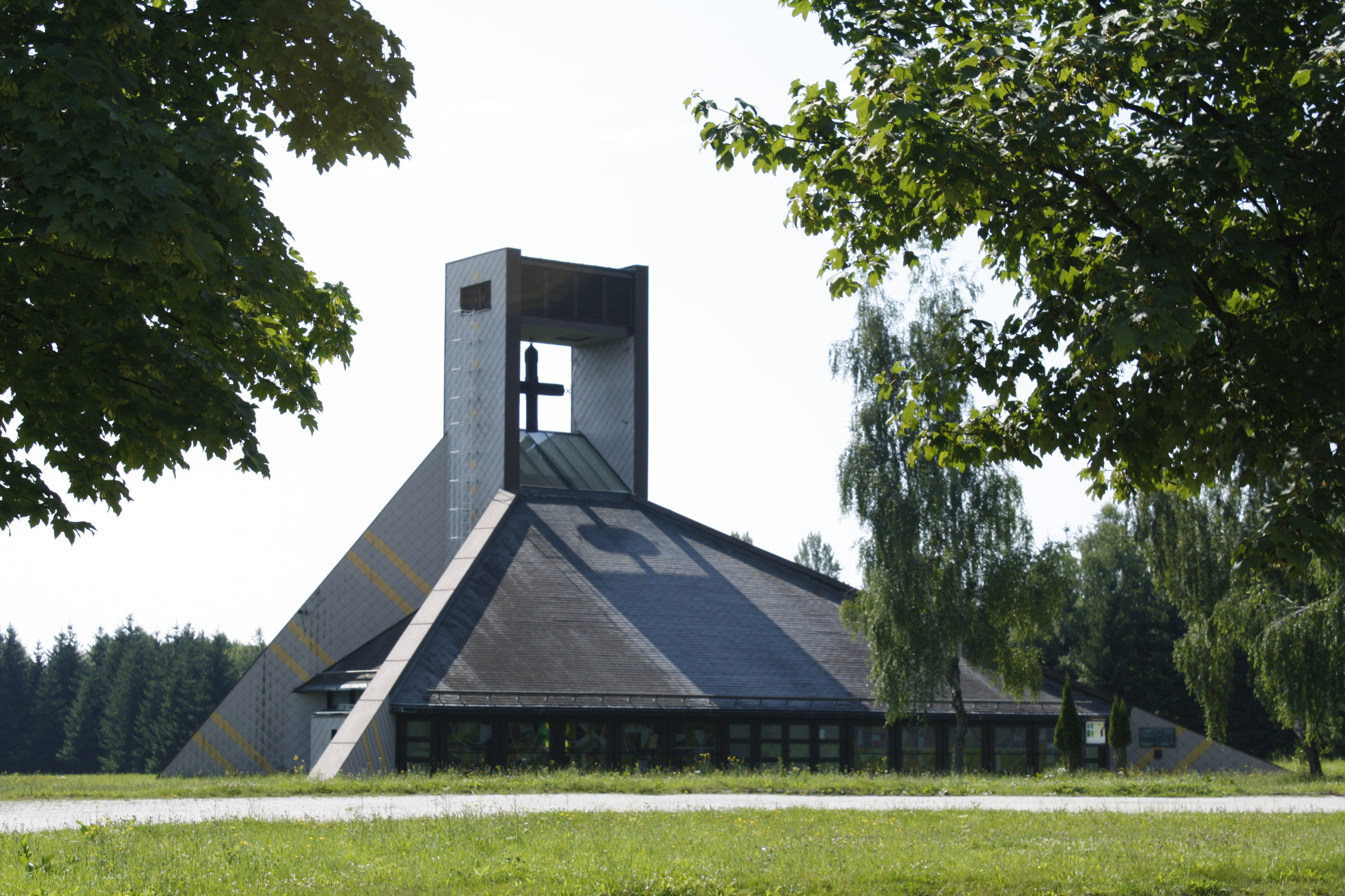 Church on the proving ground in Allentsteig in Lower Austrie